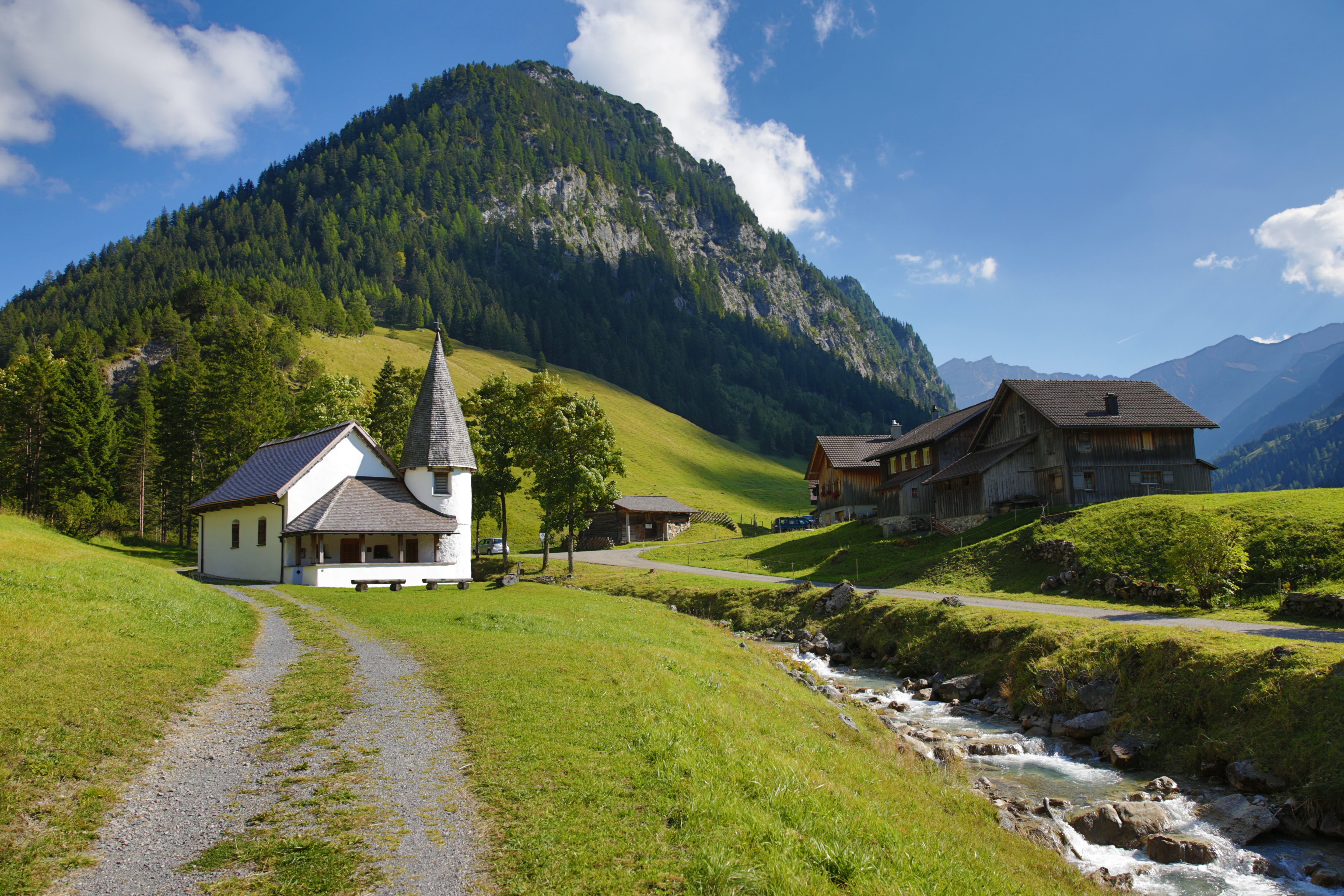 Steg. Chapel St. Wendelin and Martin